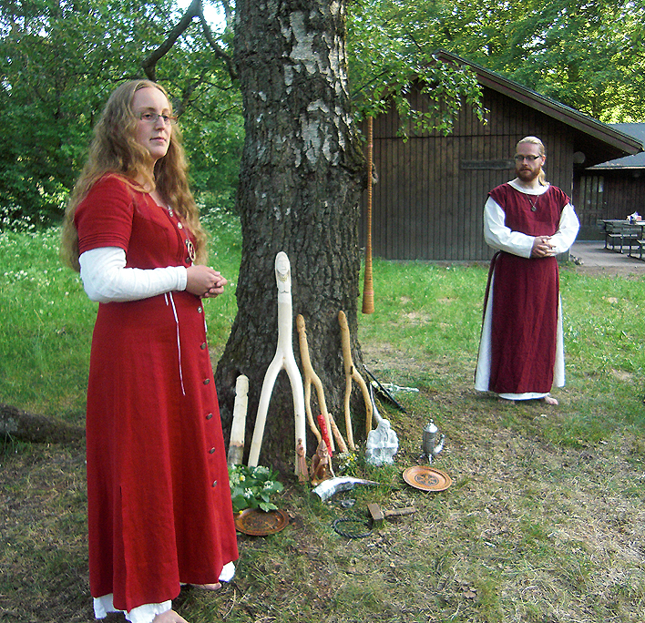 Forn Sed Sweden (former Swedish Asatru Assembly) holding a blót during their annual thing (meeting) at the 4th June 2011 in Humlamaden near Veberöd in Lund Municipality, Scania, Sweden. The thing and the blót was held under a birch (Betula pendula), a tree connected to the goddess Frigg. To the left is the "rådsgydja" (i.e. approx. "Priestess of the Council") Birka Skogsberg and to the right the "rådsgode" (i.e. approx. "Priest of the Council") Martin Domeij while officiating the blót. Both the gyðja and the goði is dressed in ceremonial clothes with red clothing over white clothing. At the tree is cultic images standing depicting the Norse deities Forseti, Freyja, Freyr, Frigg, and Thor. From the tree trunk a birch trumpet is hanging. On the ground is a drinking horn, an oath ring, and a ceremonial hammer.